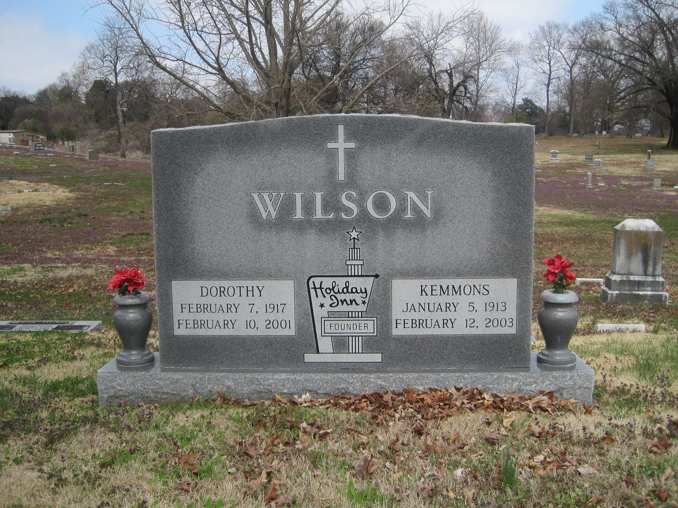 Grave of Kemmons Wilson (Holiday Inn founder)